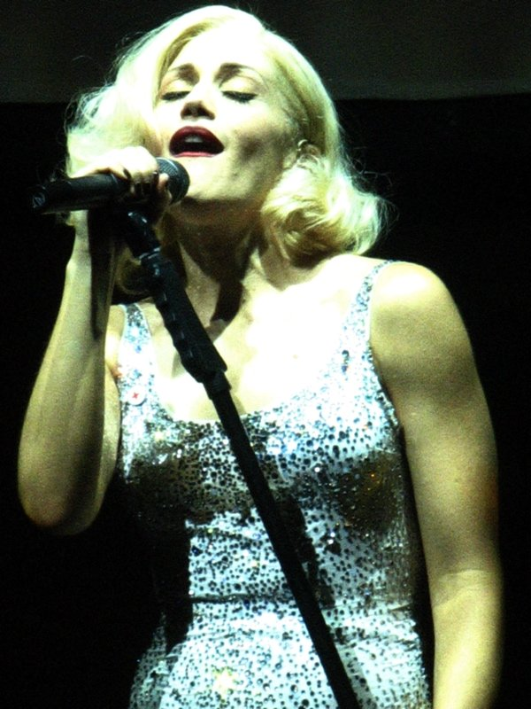 Gwen Stefani performing "Cool" in Duluth, Georgia, United Statesooo-oool